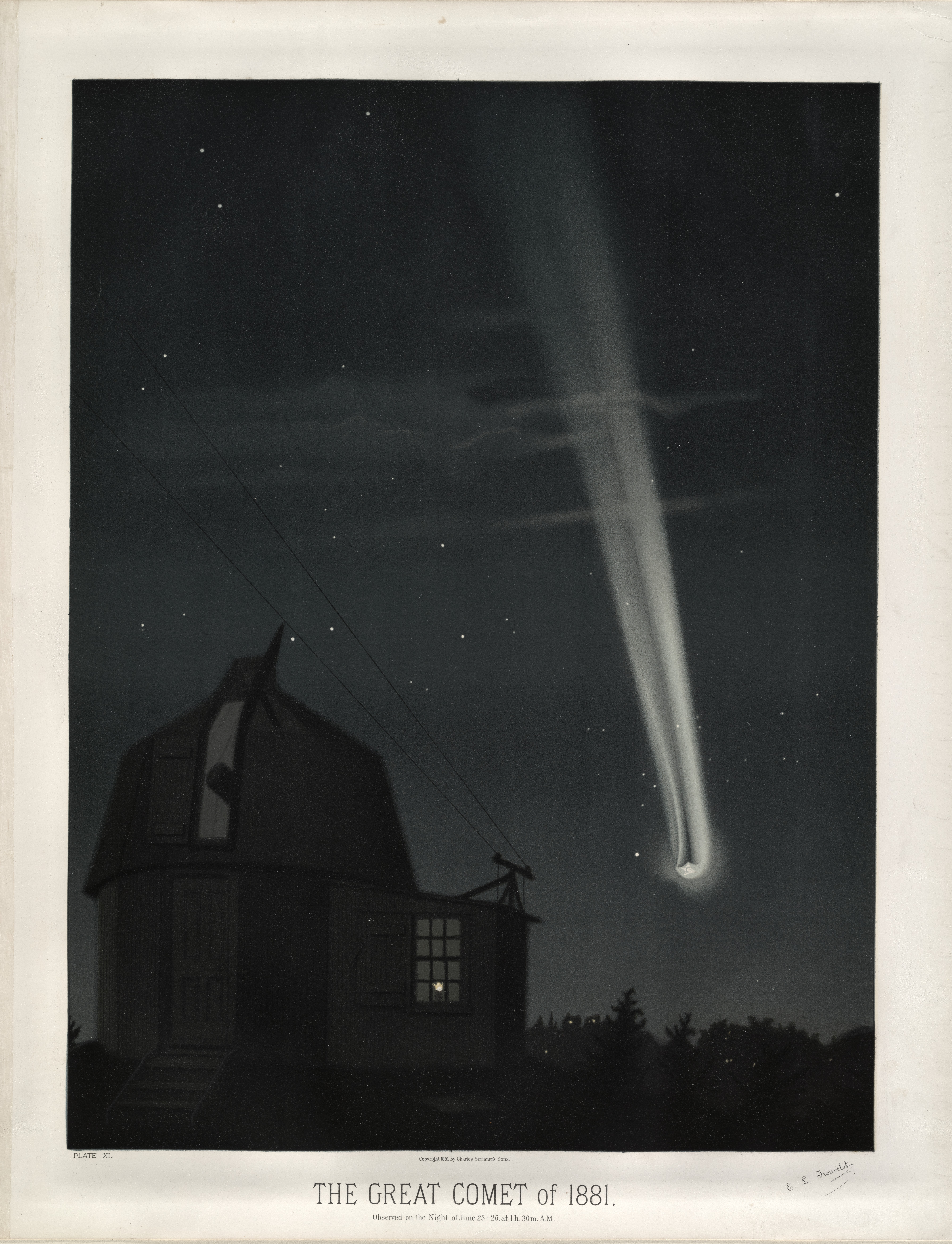 The great comet of 1881 (Comet C/1881 K1). Observed on the night of June 25-26 at 1h. 30m. A.M. (Plate XI from The Trouvelot Astronomical Drawings 1881)